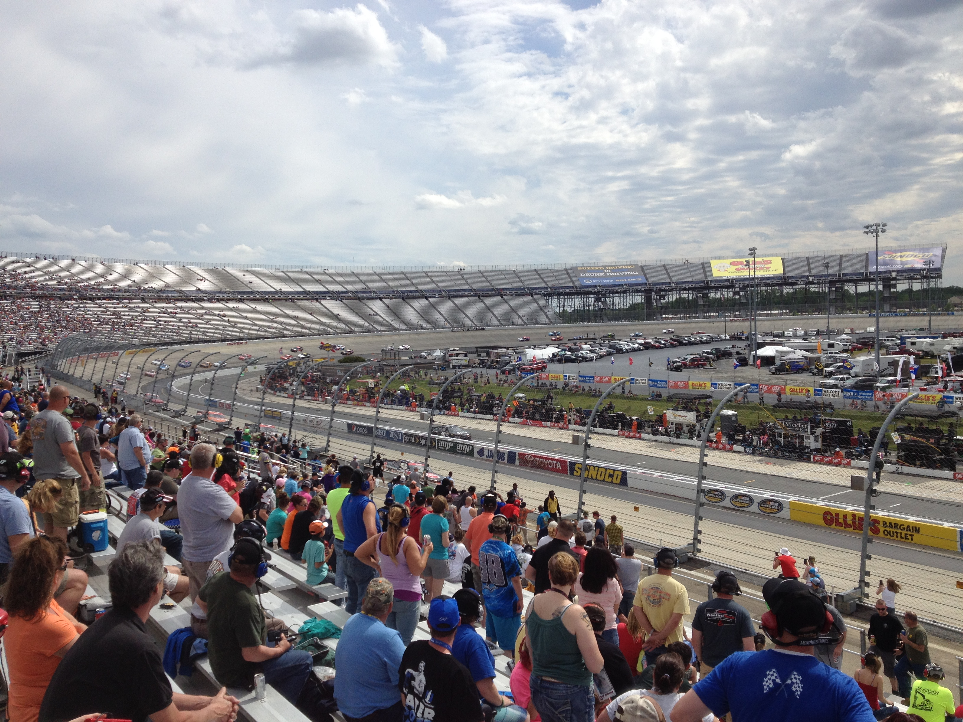 The 2016 Ollie's Bargain Outlet 200 at Dover International Speedway viewed from the frontstretch, with Ty Dillon (#3) leading Erik Jones (#20) and the rest of the field.